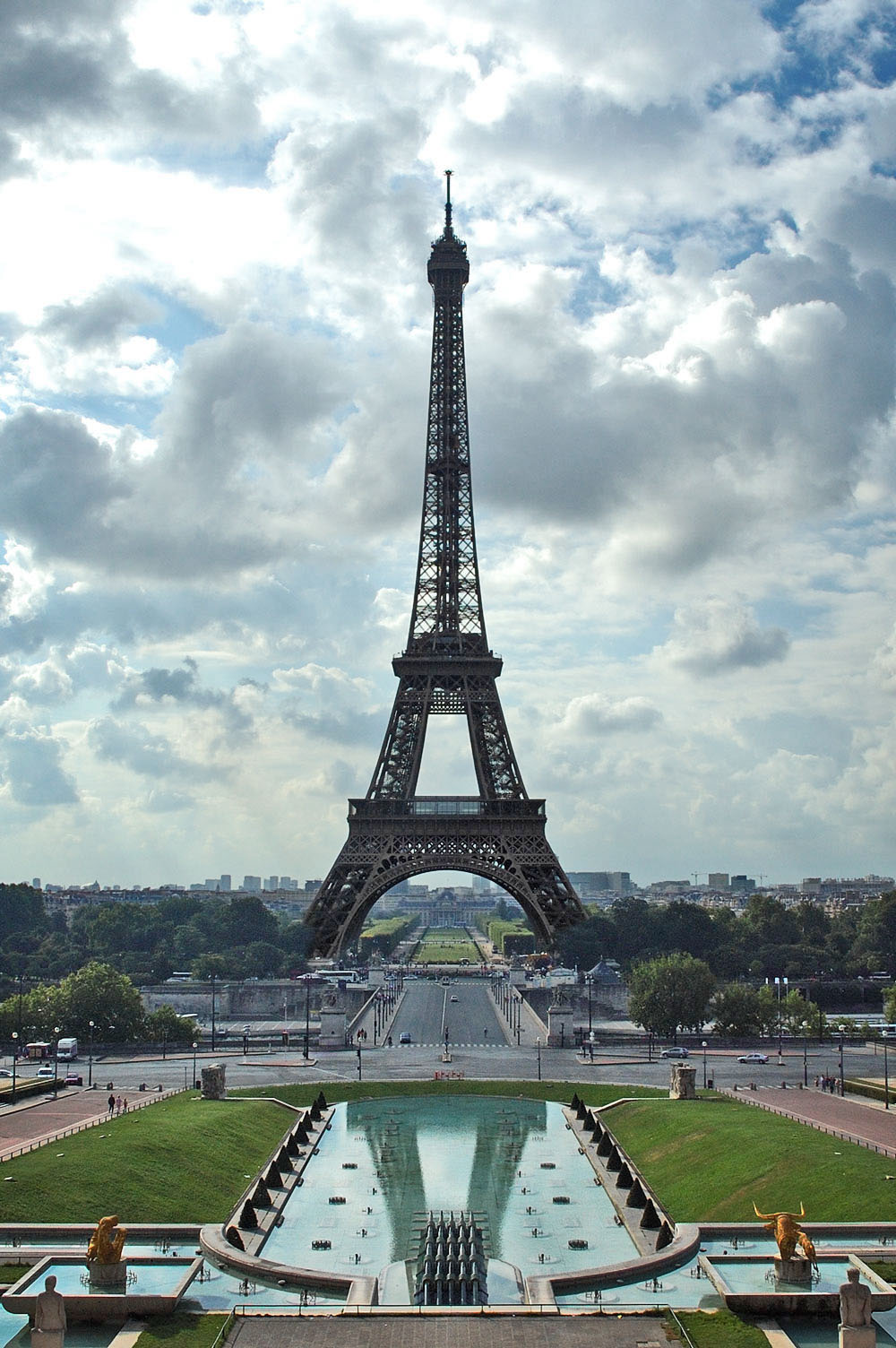 Eiffel Tower from the esplanade du Trocadéro at 10:12 on the morning of the 16th of August 2005.